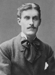 Georg Nordensvan 1881